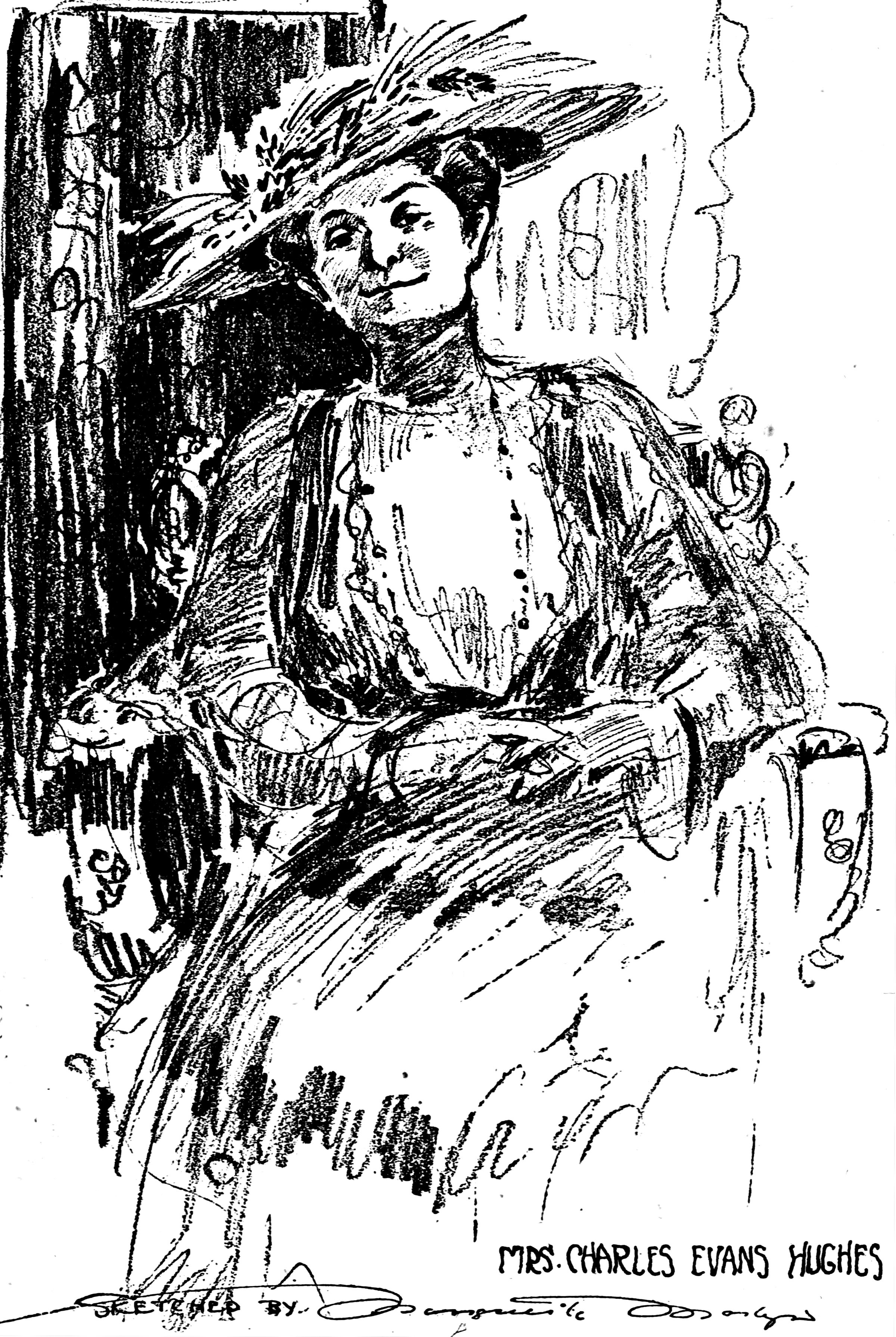 Mrs. Charles Evans Hughes (the former Antoinette Carter), wife of the Republican nominee for U.S. President, as sketched by Marguerite Martyn, 1916.